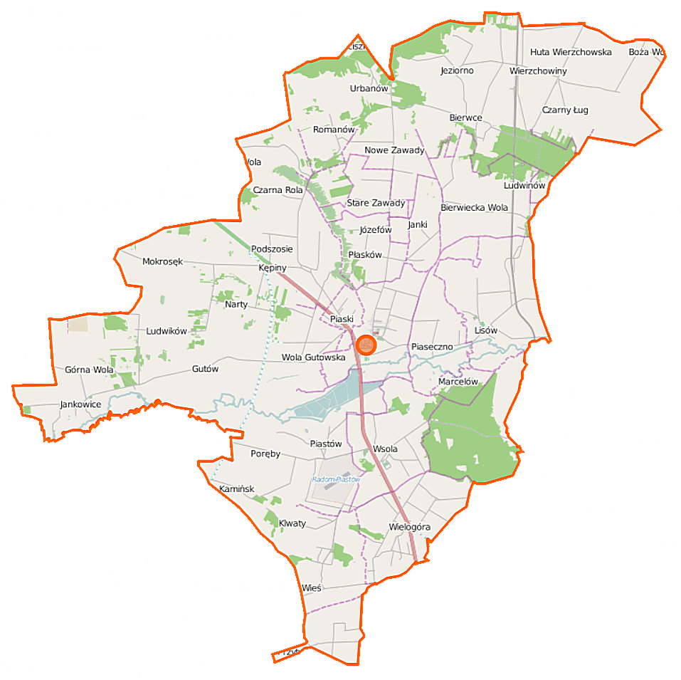 Map of Gmina Jedlińsk, Poland This map of Jedlińsk (gmina) was created from OpenStreetMap project data, collected by the community. This map may be incomplete, and may contain errors. Don't rely solely on it for navigation. Border coordinates51.594620.9794←↕→21.242451.4311